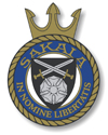 coat of arms of ENS Sakala